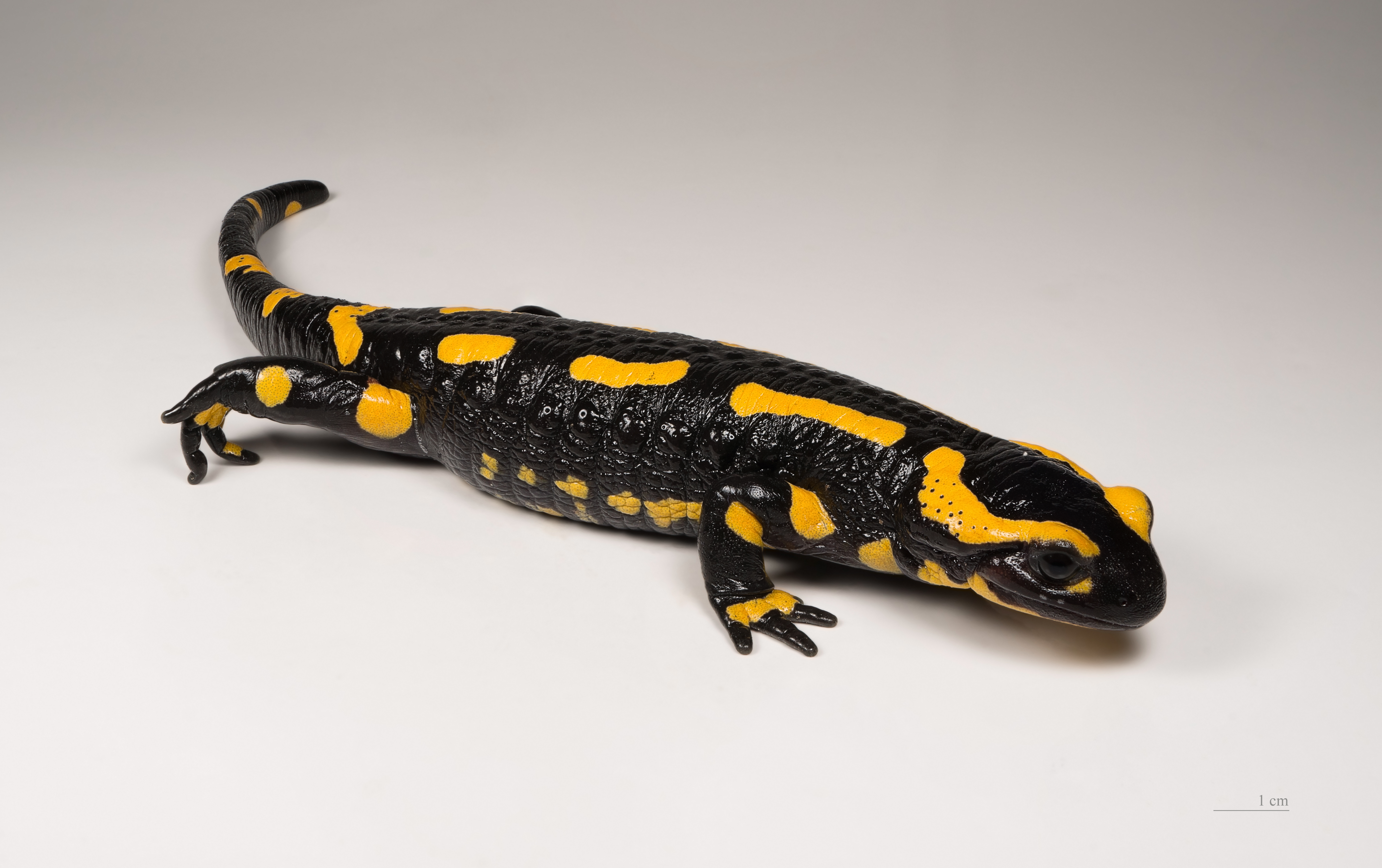 ♂ - Fire Salamander No. 1 Parotide gland, neurotoxin. No. 2 Costal furrows with latero-dosrales glands. No. 3 Mid-dorsal glands. No. 4 Fingers not webbed. No. 5 Vomeronasal organ. Locality: Maourine pond, Toulouse, France.